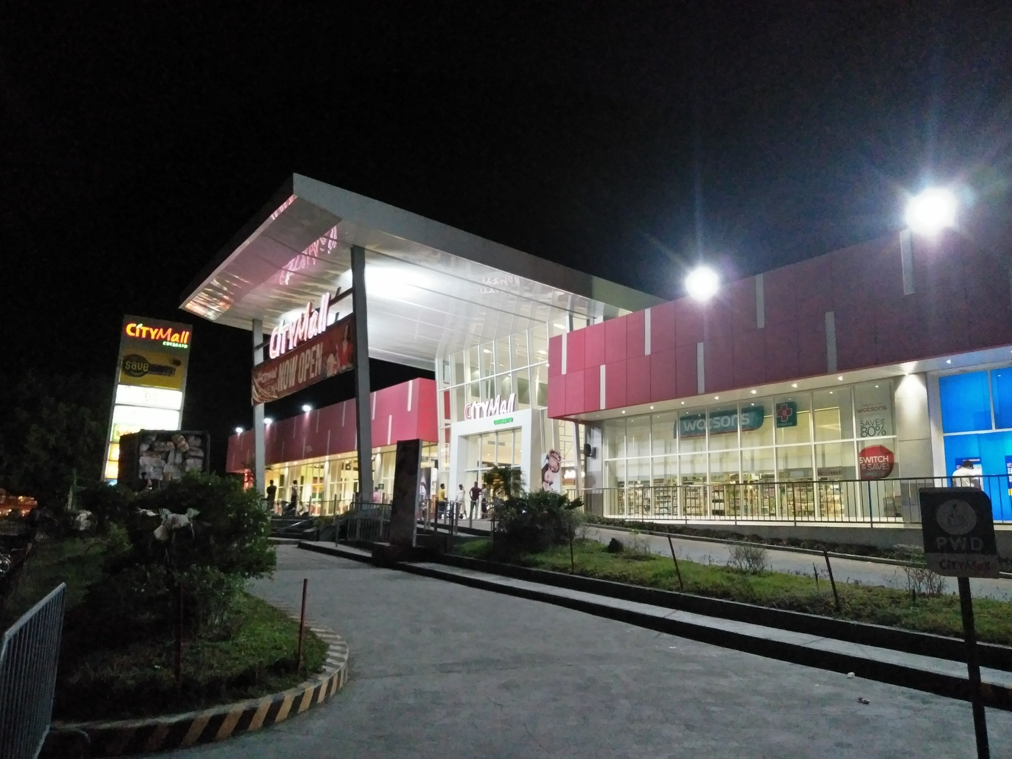 Citymall along governor gutierez avenue, cotabato city